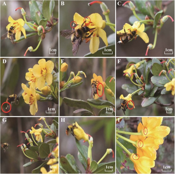 The pollination process of Bombus braccatus, the only effective pollinator of Rhododendron longipedicellatum. (A) B. braccatus alighting on the corolla. (B) B. braccatus collecting pollen and reeling linear pollen silks. (C) B. braccatus managing the pollen on the corolla. (D) B. braccatus delivering the managed pollen mass to the next flower. (E,F) B. braccatus pollinating by claws and pretarsi of metapedes. (G) Fruitlet after successful pollination (expanded ovary and blood red stigmas and styles). (H) B. braccatus sucking nectar on the first day of anthesis. (I) Punctured nectary pore. The B. braccatus individuals in (A–G) were workers, among which the one in (F) had one body color while the rest had another color; the B. braccatus in (H) was a male.